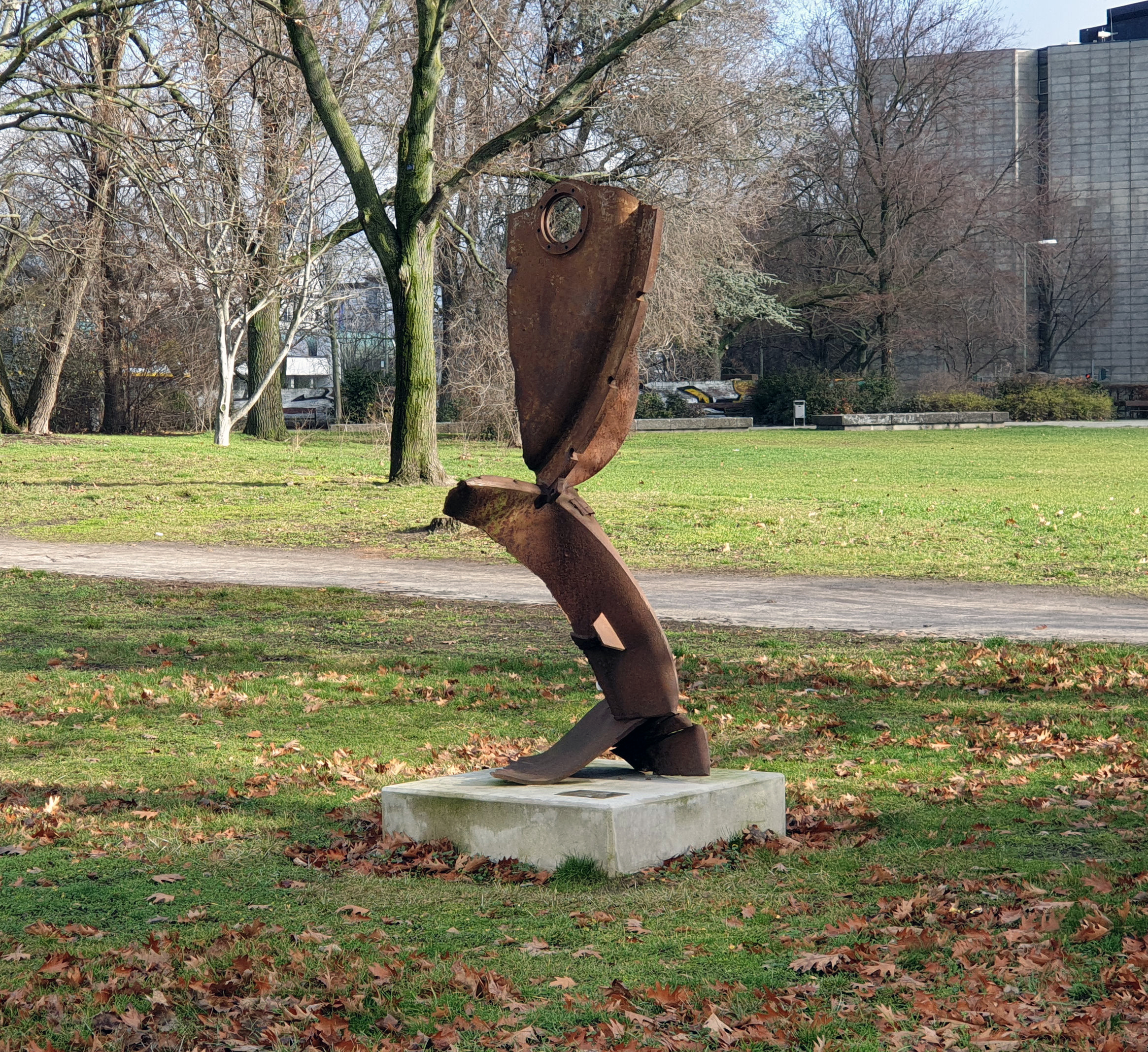 Sculpture, "Huksos" by Erwin Fabian, 2013, Lützowplatz, Berlin-Tiergarten, Germany